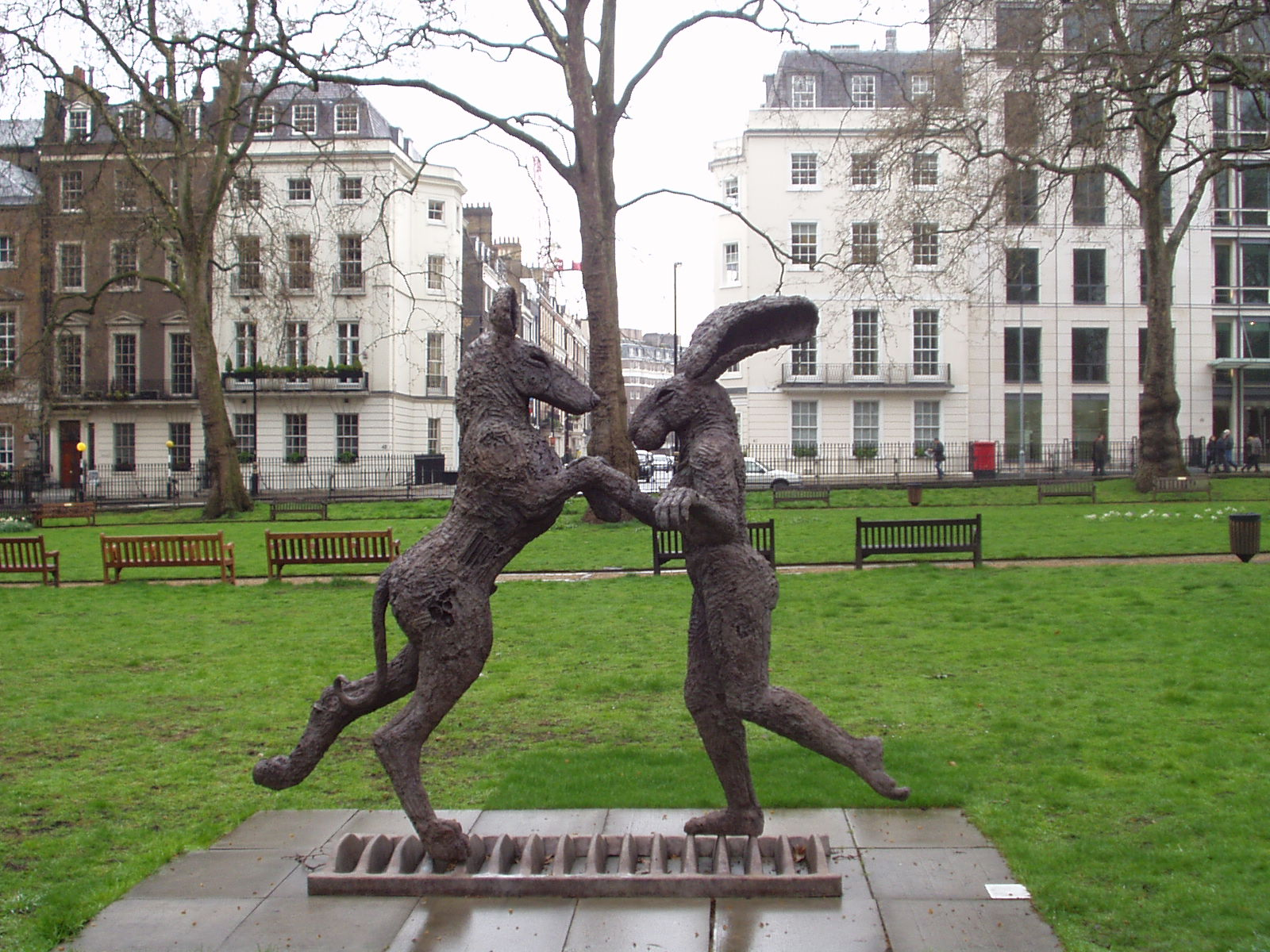 Sculpture Hares by Sophie Ryder, Berkeley Square in London/UK